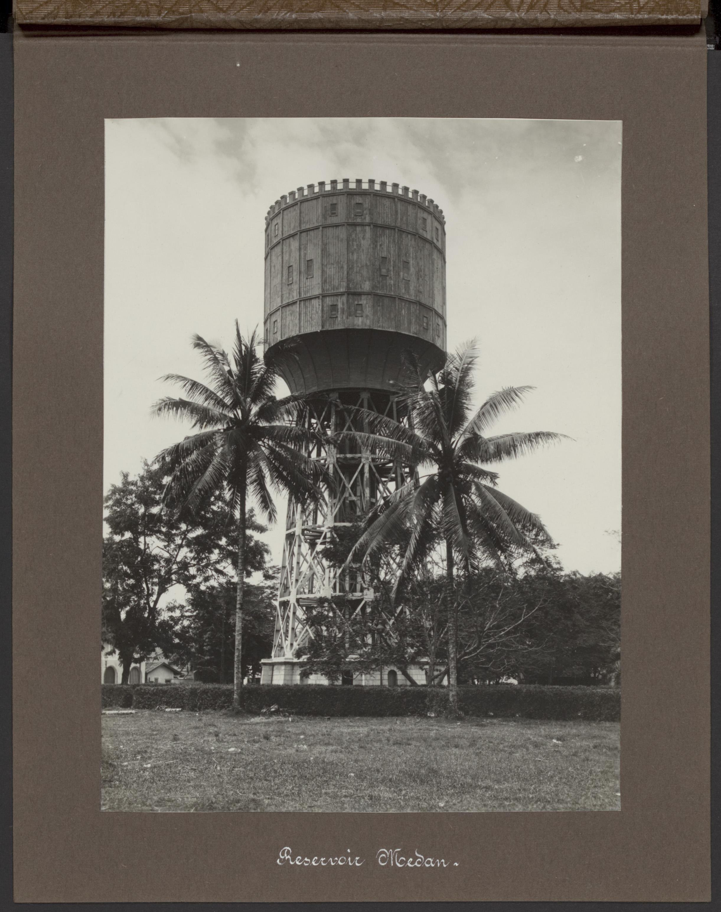 A picture of Tirtanadi Water Tower, as found in Nationaal Archief (National Archive of the Netherlands).